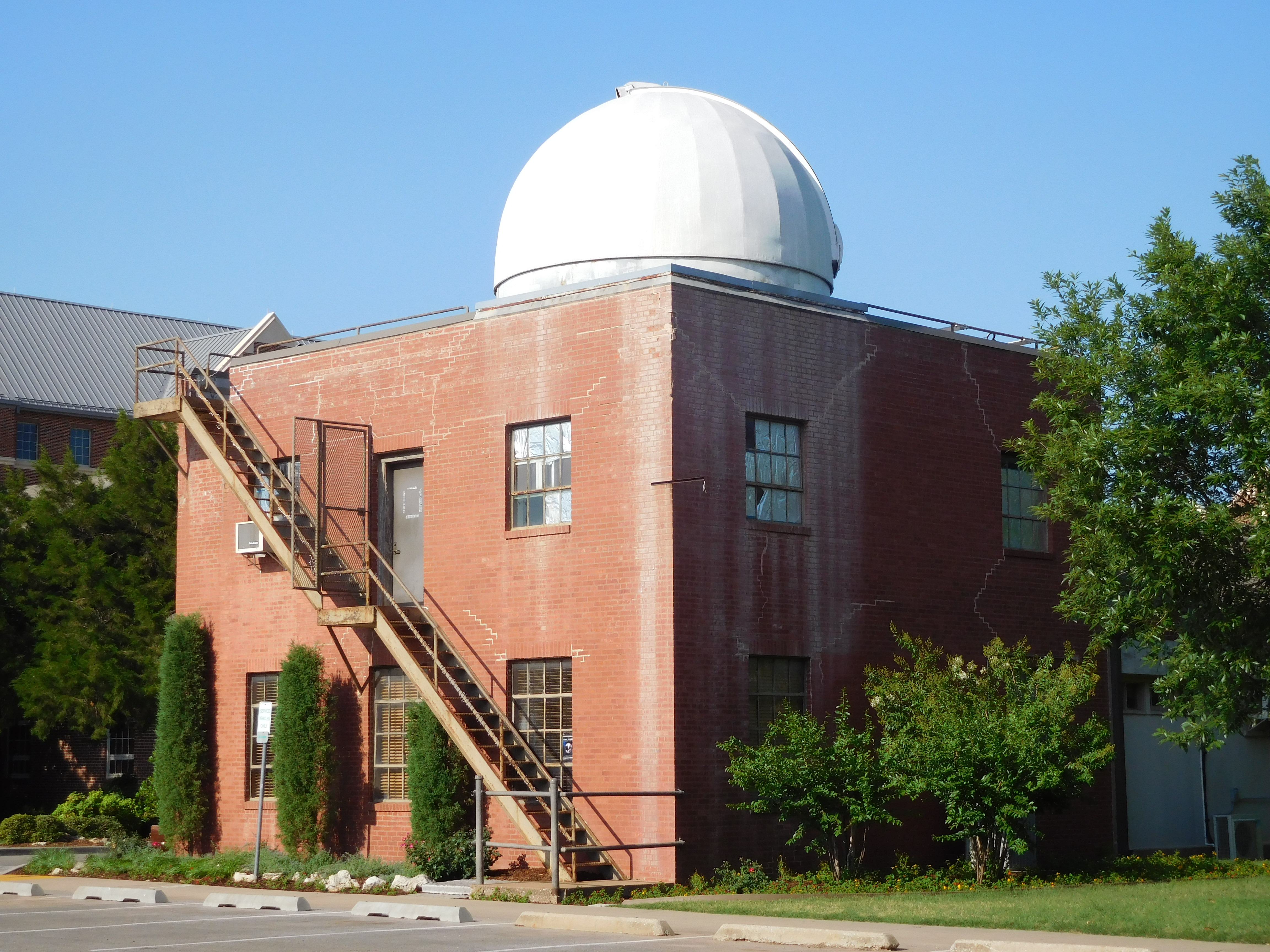 University of Oklahoma Observatory, southwest corner